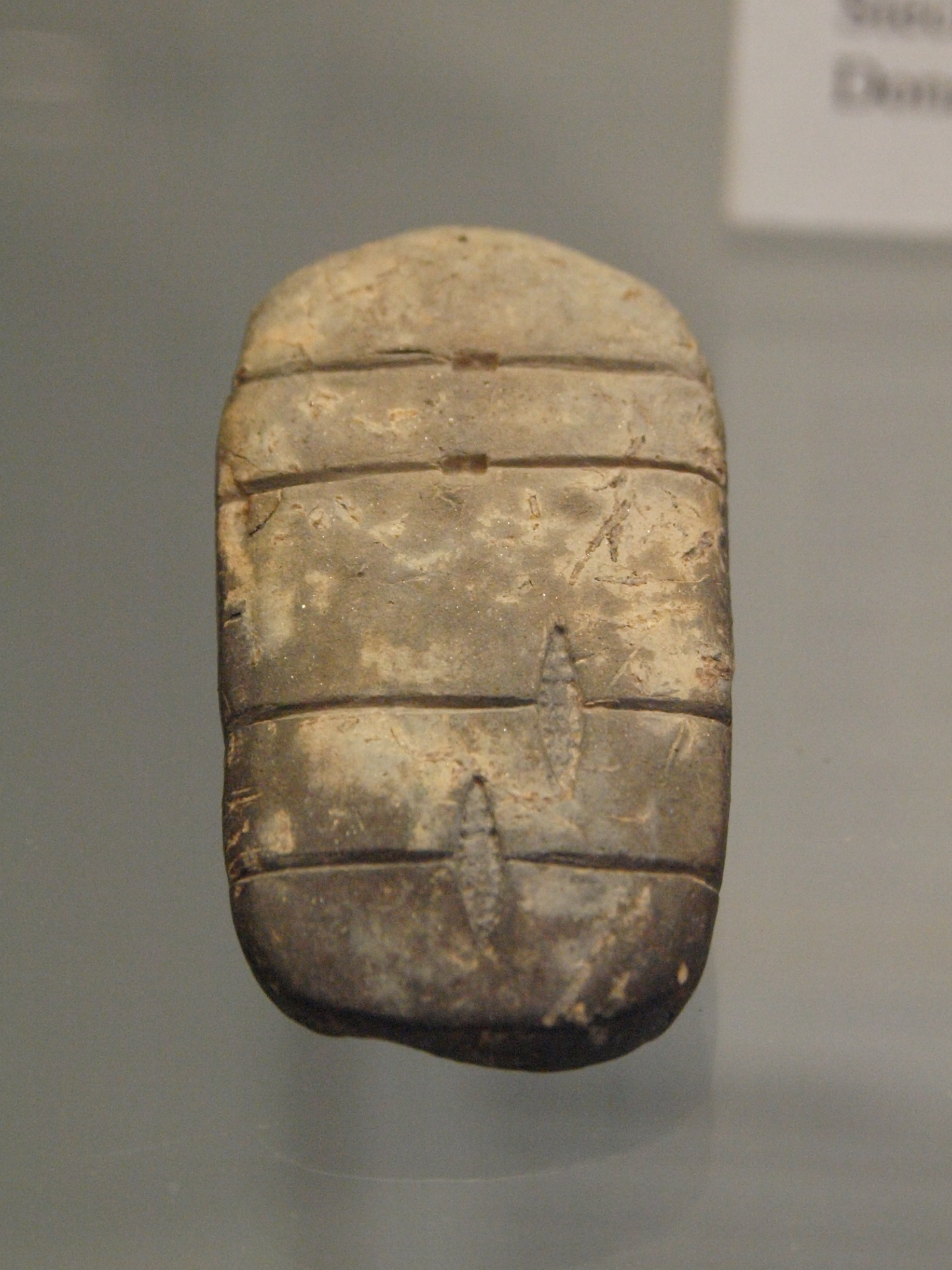 A so called Brotlaibidol found in Mangolding, Mintraching, Landkreis Regensburg, Germany.